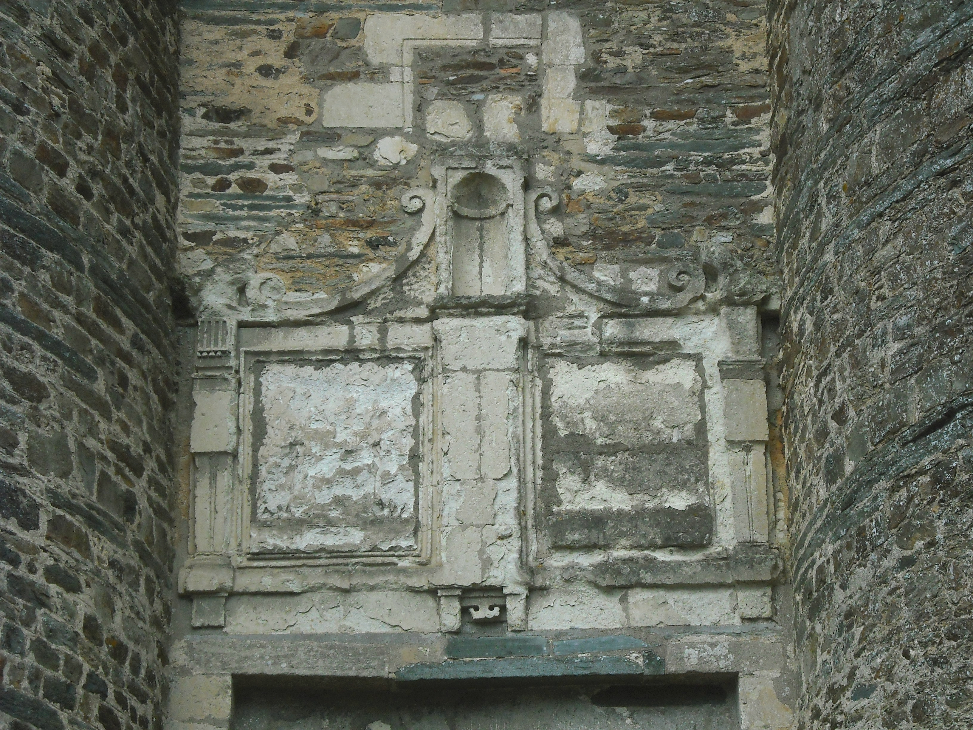 Château de Châteaubriant